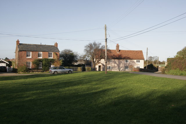 Whitestreet Green Another shot of the green. Looking north this time. Bramble Cottage is just out of view on the right.